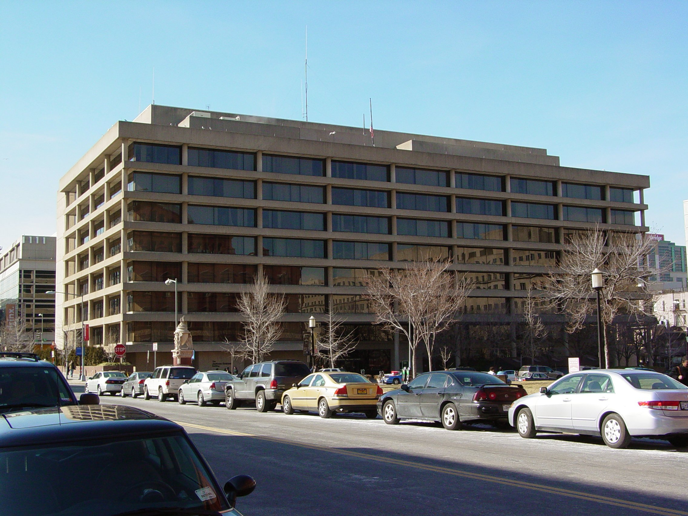 The Jackson Graham Building, home of the Washington Metropolitan Area Transit Authority.